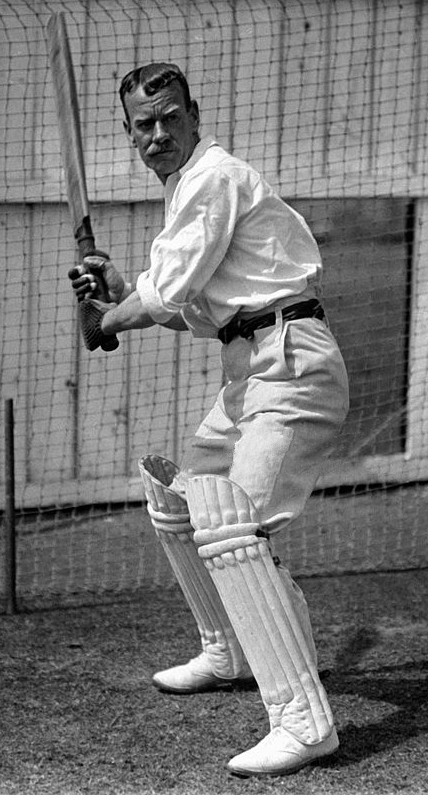 Willis Robert Cuttell, Lancashire, circa 1905.